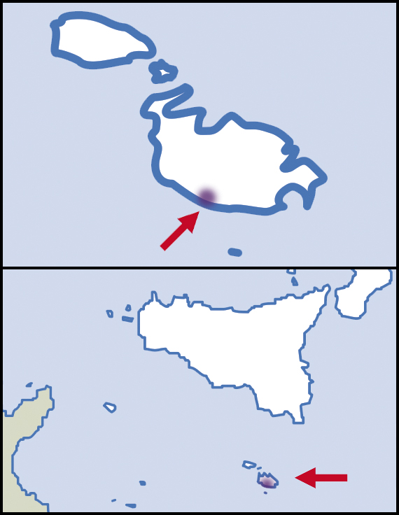 Lampedusa melitensis (Caruana Gatto, 1892). Distributional range in Europe, scientific state of knowledge of 2012. Source description in English. Light colour indicated rare occurrences or regions where the species could eventually be expected to occur. Dark colour indicated relatively reliable occurrences, as well as regions where the species was expected to occur, and where the species was not known to be extremely rare. Dark colour indications were not necessarily based on published records. Species summary in AnimalBase